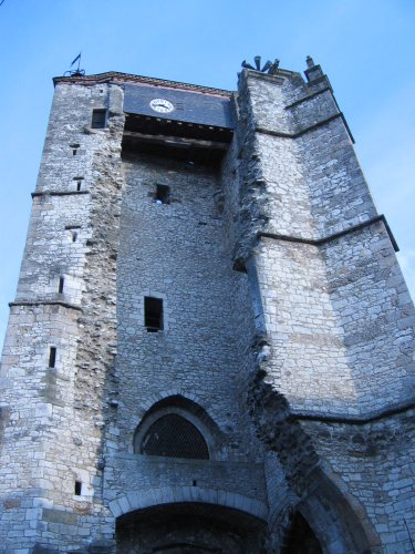 Souillac belfry, Lot, France.